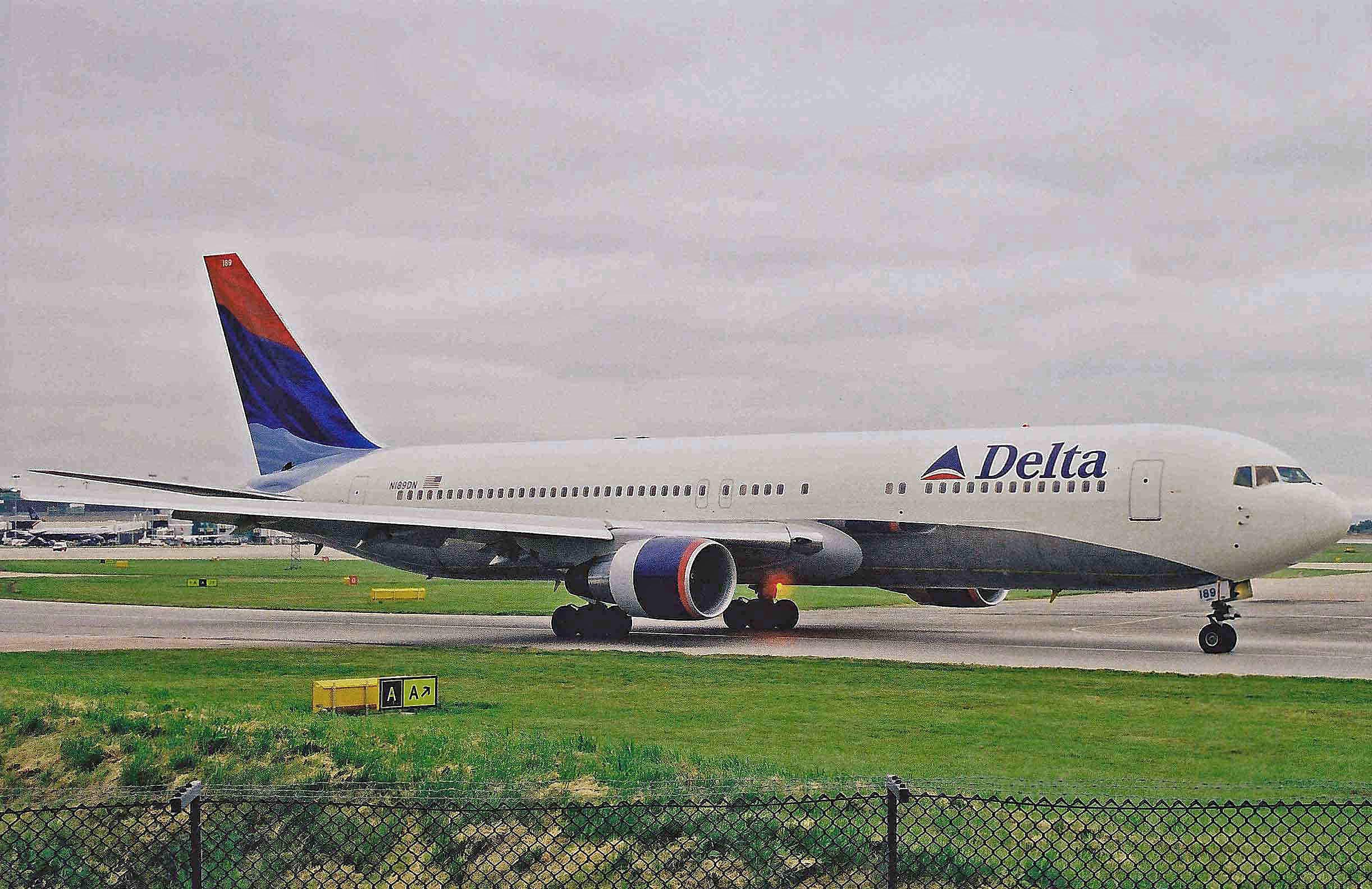 A picture of an airplane